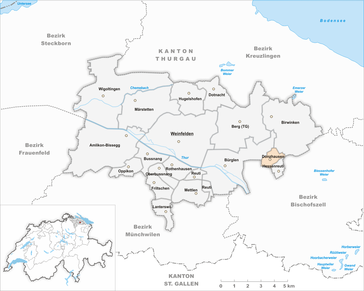 Municipality Donzhausen